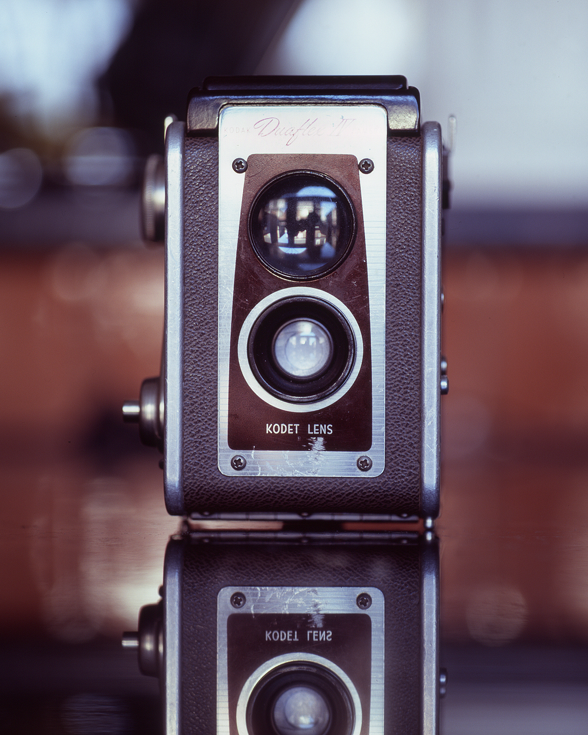 This photo was taken using a Super-Multi-Coated MACRO-TAKUMAR/6x7 1:4/135 lens wide open. (camera depicted in photo is Kodak Duaflex IV) The Duaflex IV was an inexpensive fixed-focus medium-format camera made by Kodak between 1947-1960. It used type 620 format film. The styling is of a twin-lens reflex camera but the camera is fixed-focus - the viewing screen is for framing purposes only.